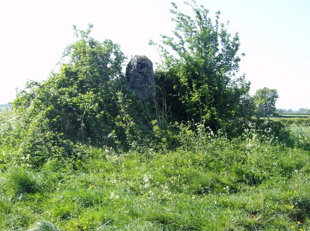 Lugbury long barrow Now very overgrown, the tall stone visible is the entrance at the eastern end of the long barrow chamber. Constructed in neolithic times, it was already over 2,000 years old when the Romans were constructing the nearby Fosse Way.